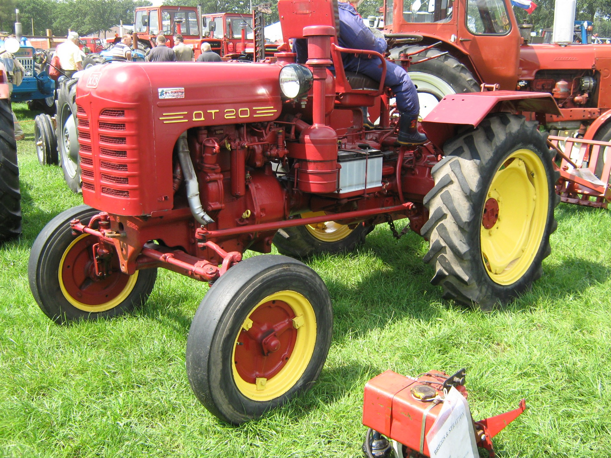 Red Tractor, Yellow Discs